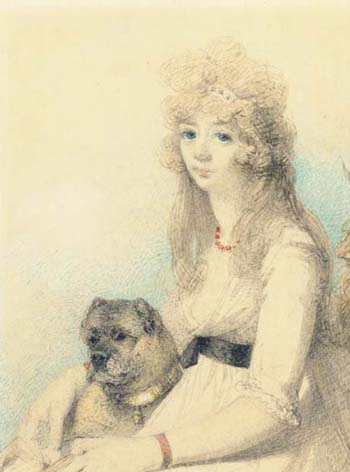 Lady Elizabeth Henrietta Stanley, daughter of Edward Smith-Stanley, 12th Earl of Derby, and Lady Elizabeth Hamilton.